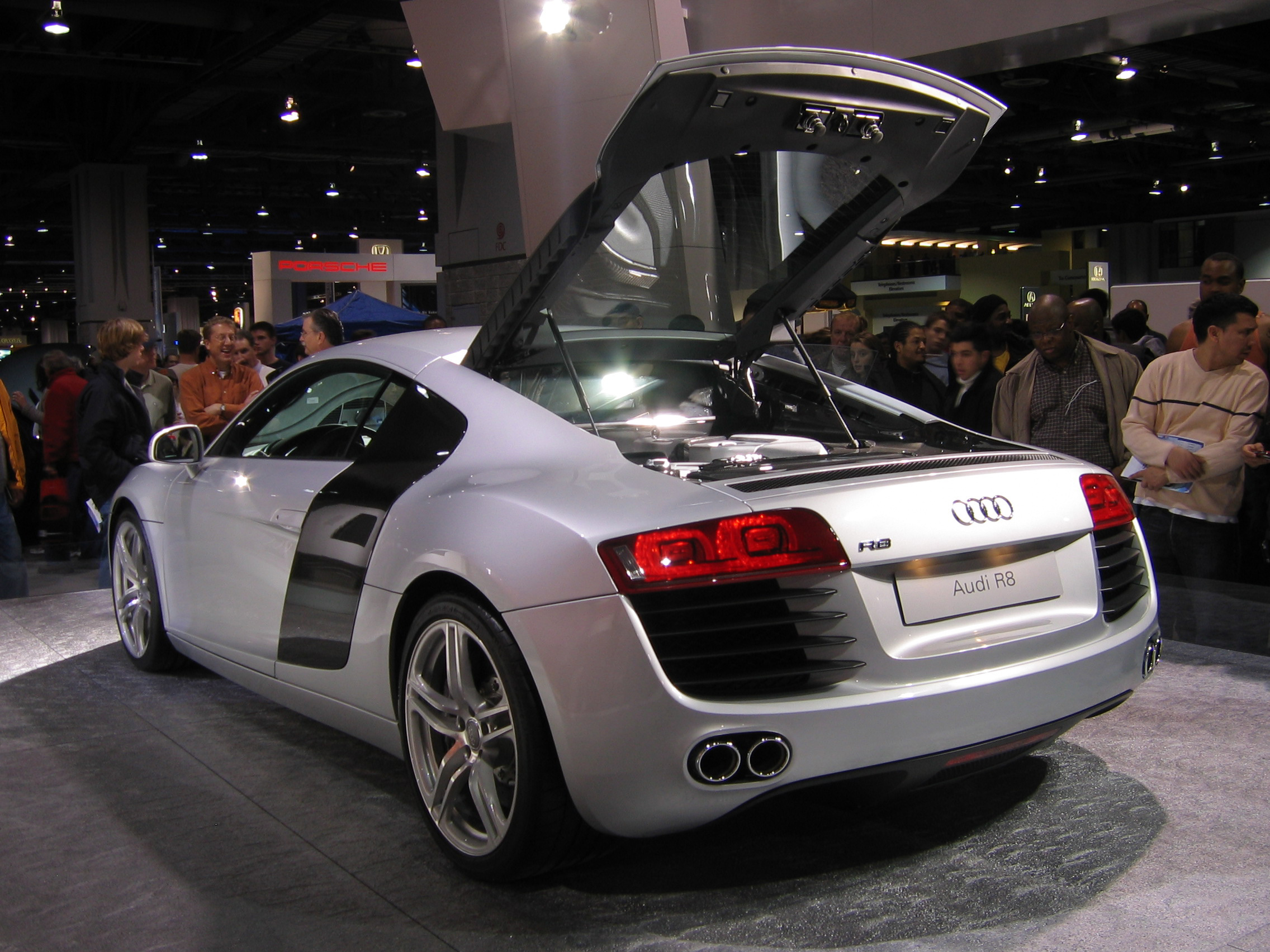 Audi R8 at the 2007 Washington Auto Show